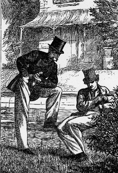 Hard Times, Harthouse and Tom in the garden (Fred Walker)